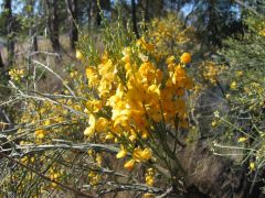 Photo of the flowers of Viminaria juncea, Australian native broom, taken by myself.